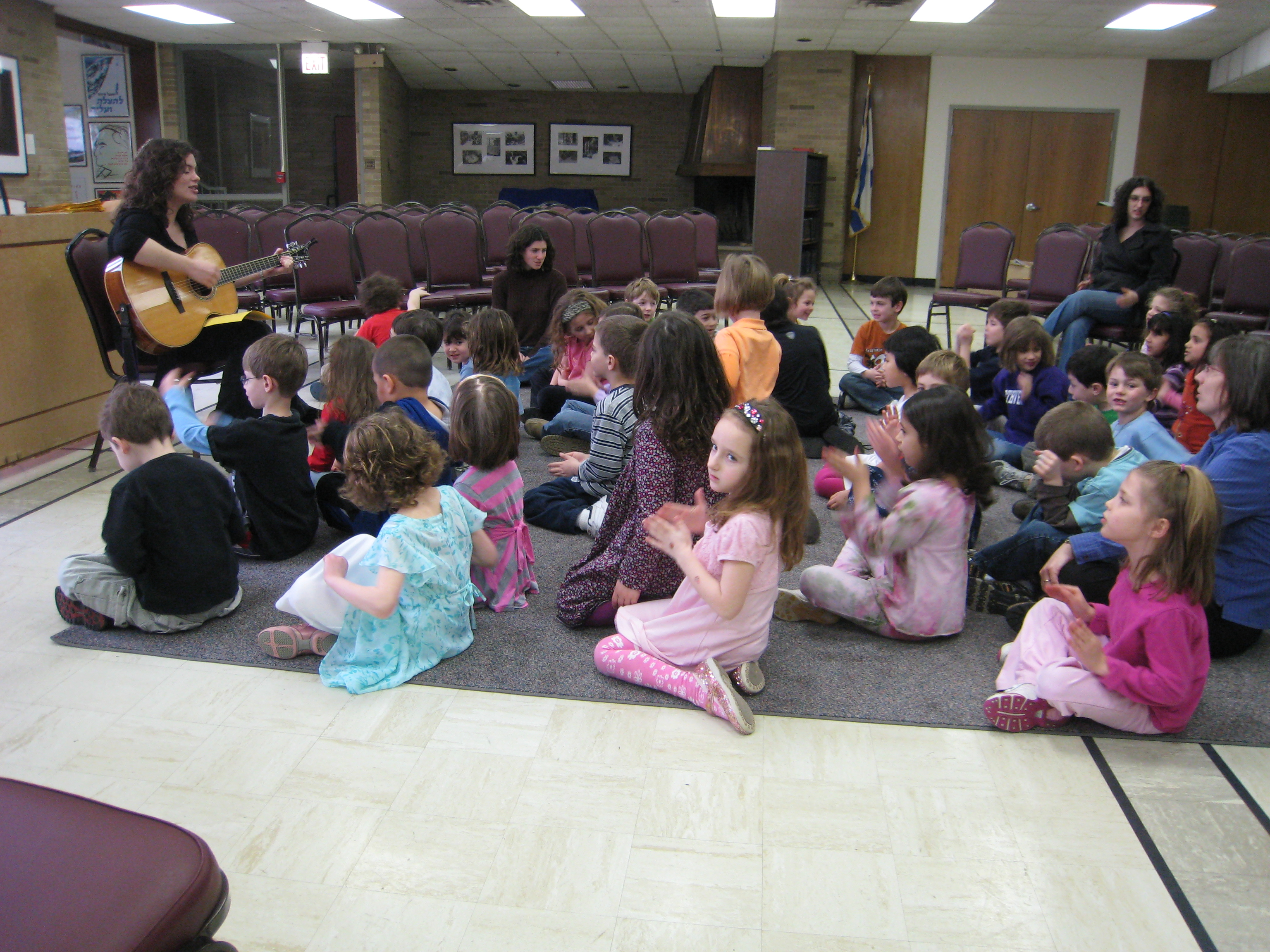 Sunday School, Chicago, IL, USA